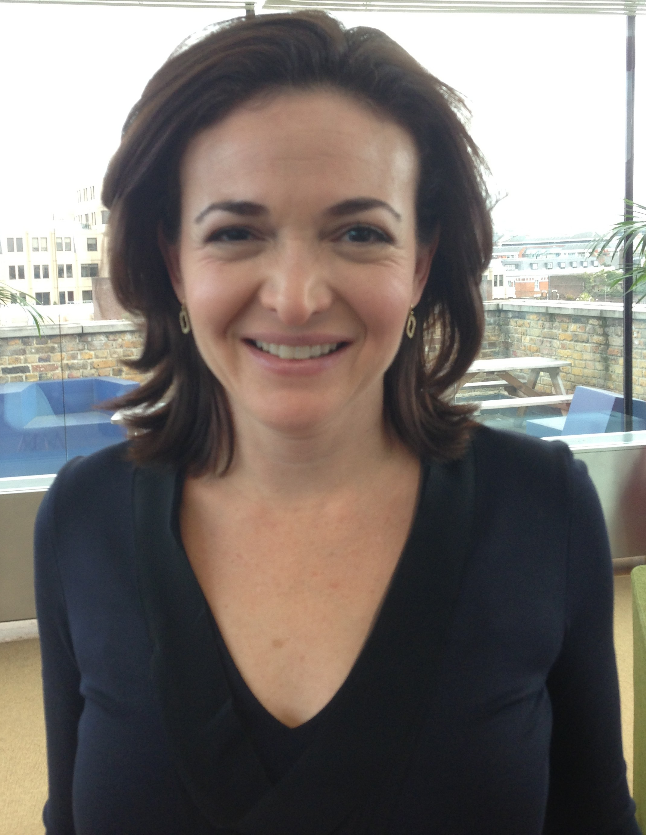 Sheryl Sandberg, at Facebook's London HQ, April 2013